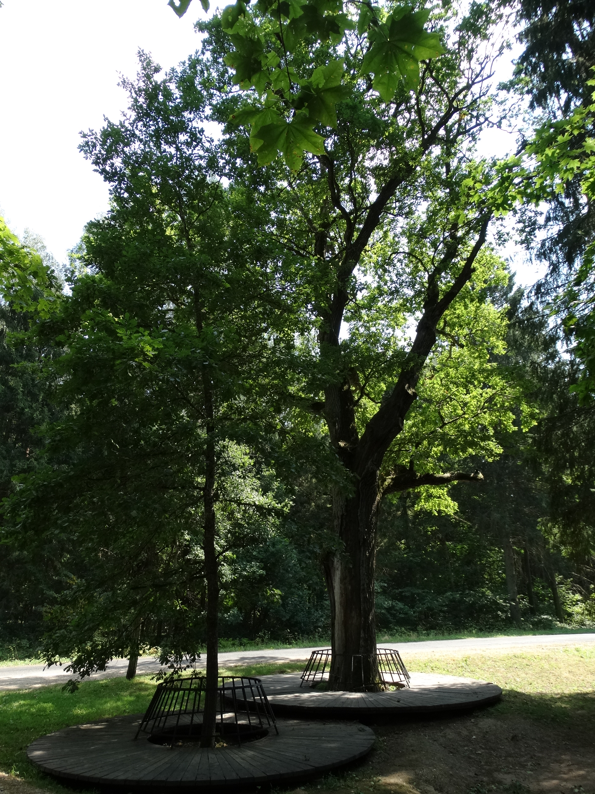 Sacred oaks, Anykščiai district, Lithuania